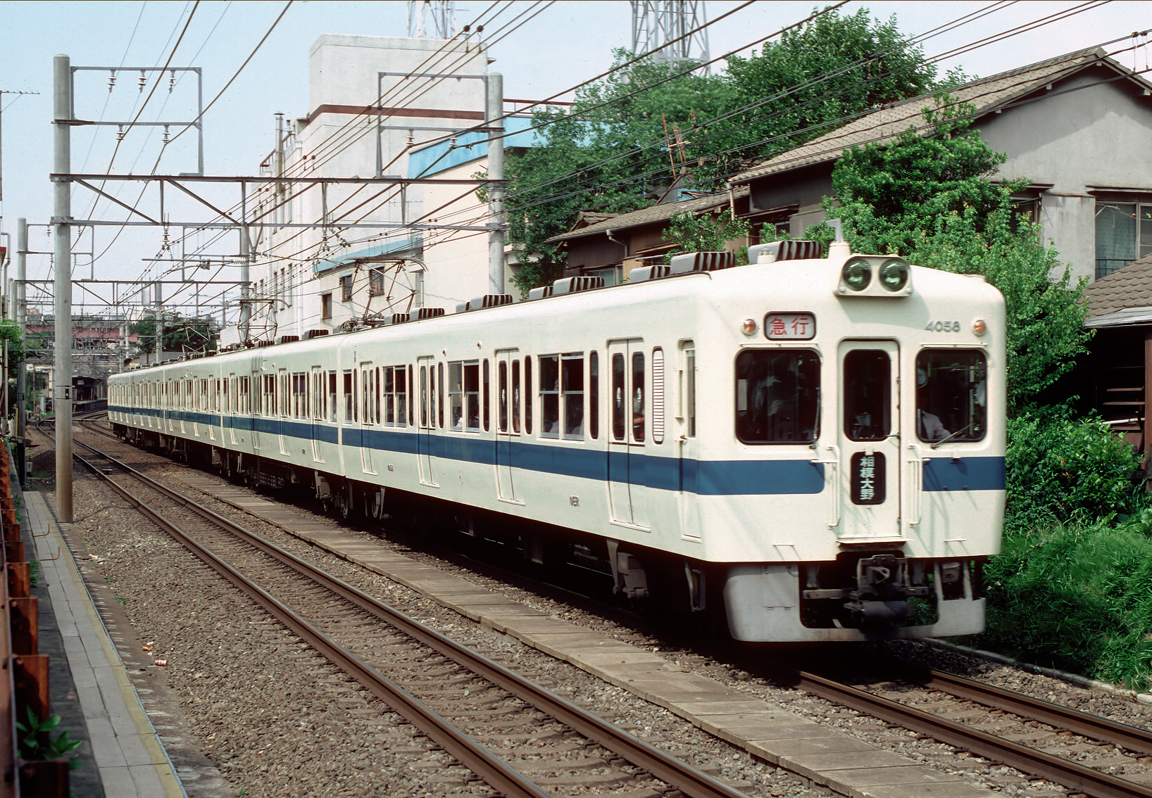 Odakyu Electric Railway 4000 series EMU of a 5 cars formation on an extra express service called as Doyo-Kyuko that means saturday's express running between Sangubashi and Yoyogihachiman.